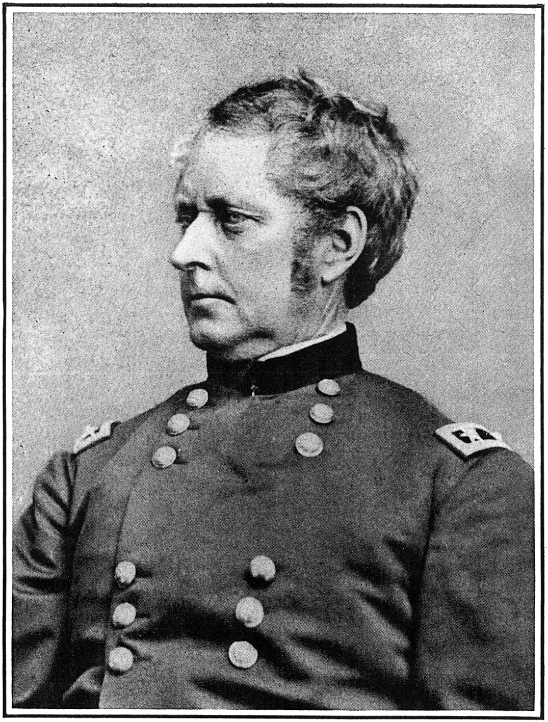 Photograph of General Joseph Hooker, American Civil War general.